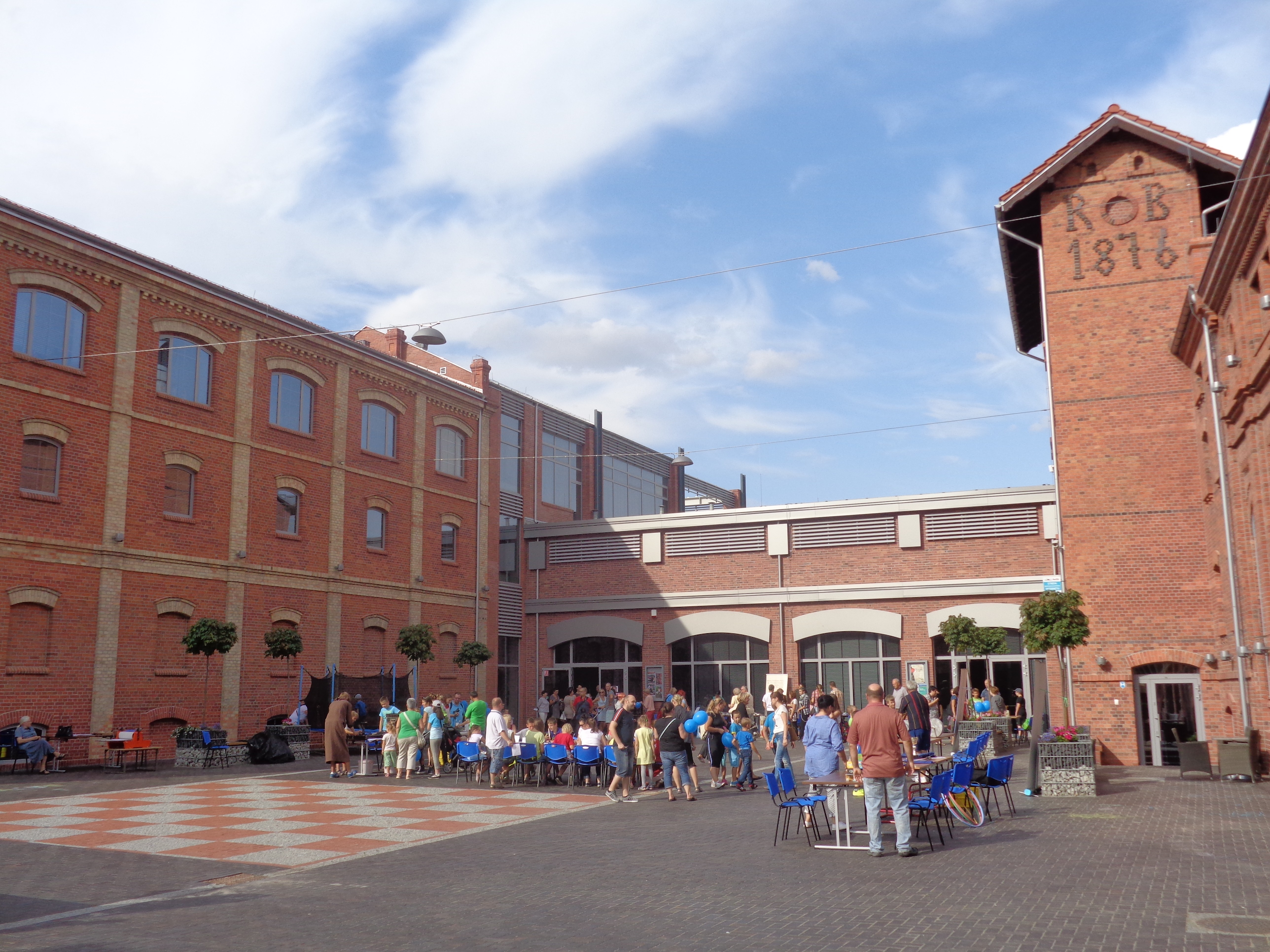 Paper Day in Bojańczyk Brewery in Włocławek.